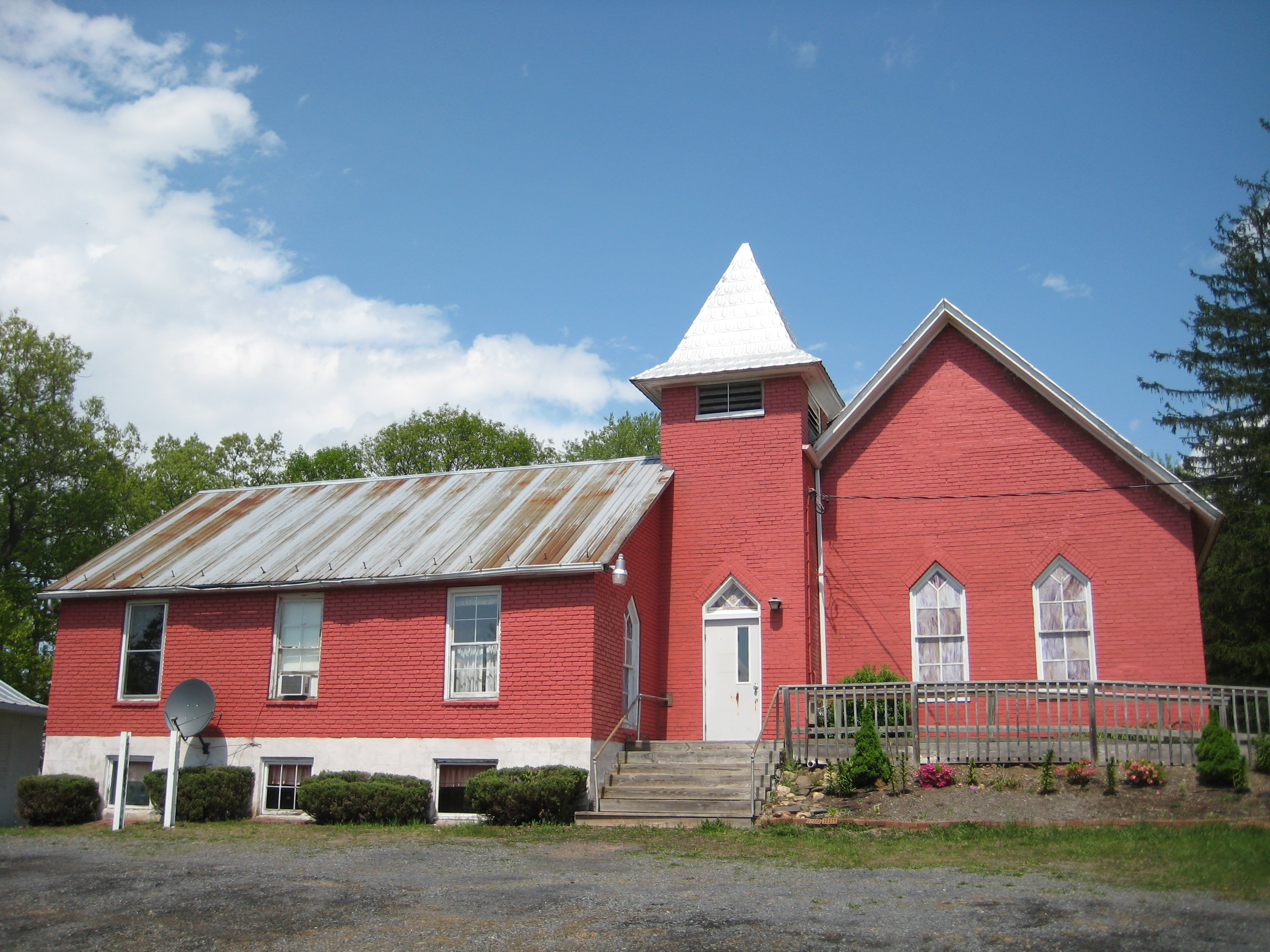 Romney Seventh-day Adventist Church (formerly Fairview United Methodist Church), built in 1915, is a church located along Grassy Lick Road (County Route 10) near Romney, West Virginia, United States. Photographed on 25 April 2010.